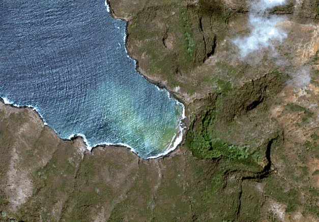 Bay and valley of Vaitahu, Eiao island, viewed from space. Marquesas islands, French Polynesia.